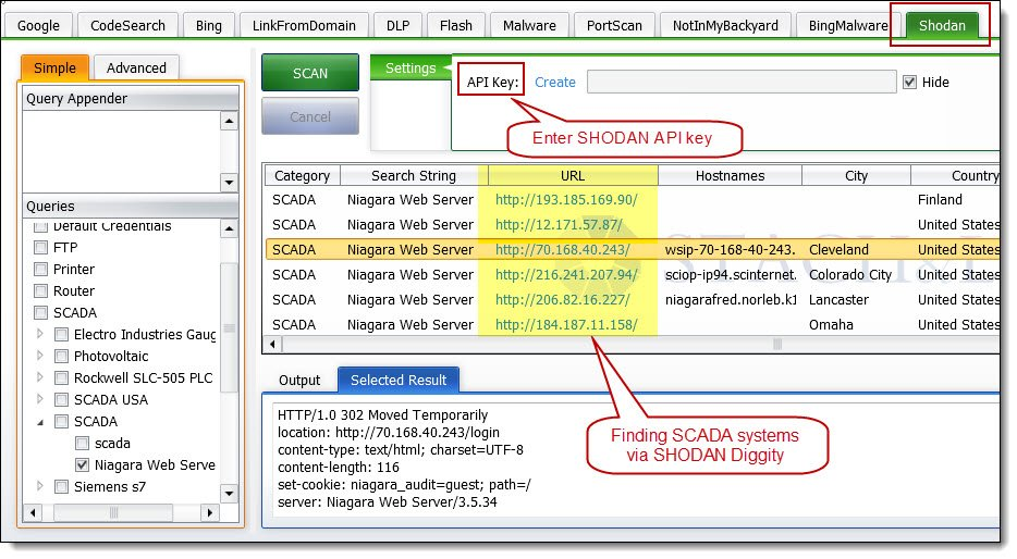 SHODAN Diggity - part of SearchDiggity search engine hacking tool by Bishop Fox SHODAN Diggity provides an easy-to-use scanning interface to the popular SHODAN hacking search engine, and comes equipped with convenient list of 167 search queries ready in a pre-made dictionary file, known as the SHODAN Hacking Database (SHDB).